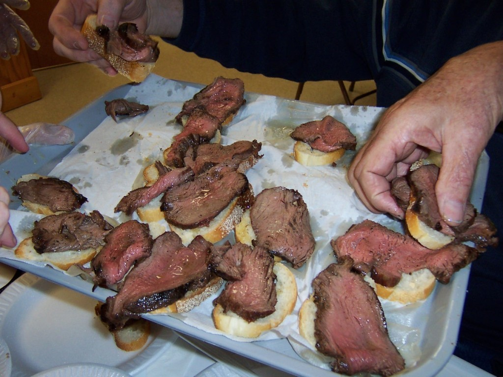 Serving beef tenderloin at a beefsteak banquet